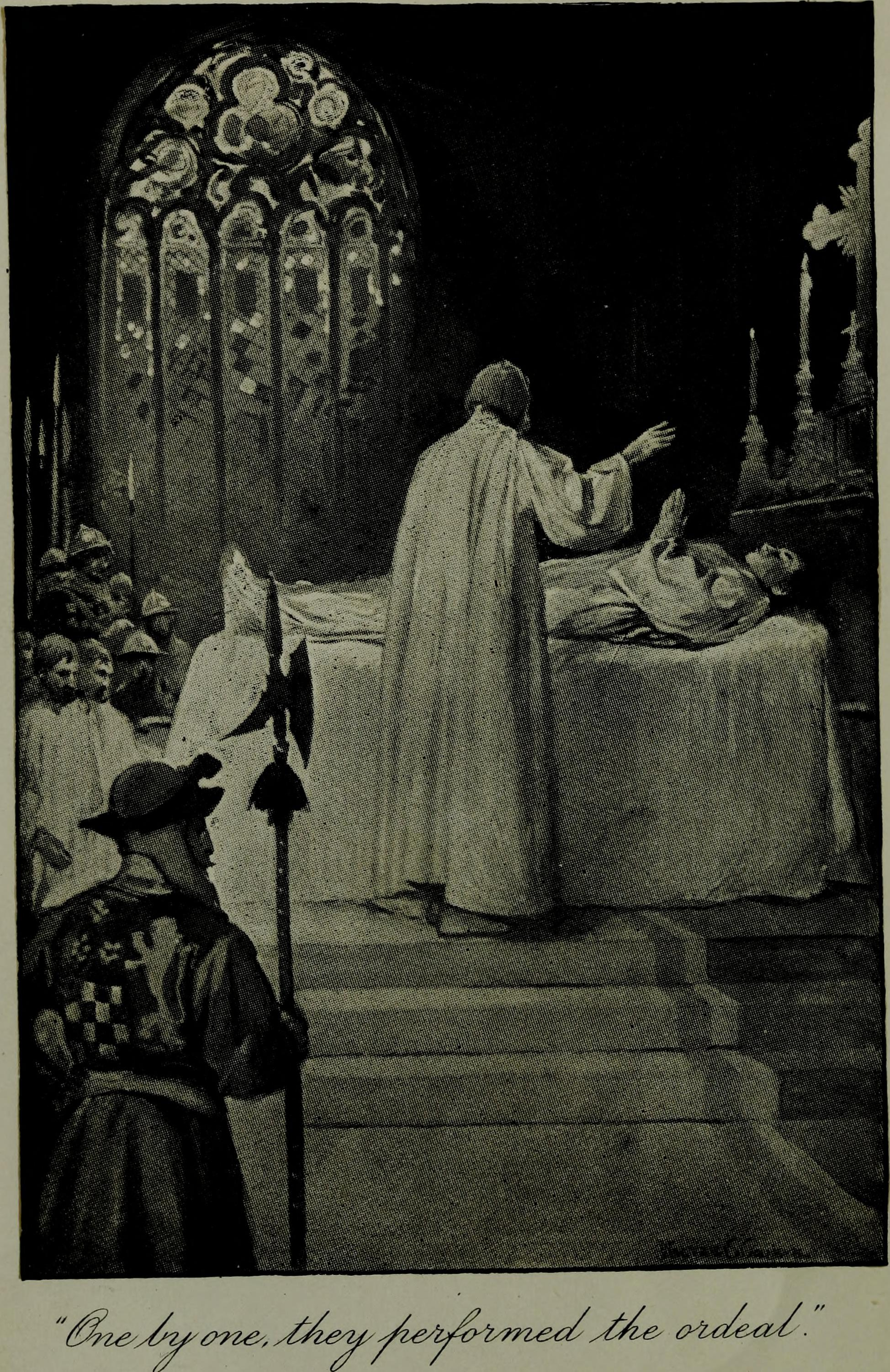 Title: The fair maid of Perth, or, Saint Valentine's Day Year: 1906 (1900s) Authors: Scott, Walter, Sir, 1771-1832 Subjects: Publisher: London New York : T. Nelson and Sons Text Appearing Before Image: ' Text Appearing After Image: CJ?^e^yC^07V&, Page 3 4 8 S3I5 7X* T^r Maid of Perth or Saint Valentines Day By Sir Walter Scott, Bart Thomas Nelson and Sons London, Edinburgh, and Neiv York1906 PREFACE. ♦ ♦ IN continuing the lucubrations of Chrystal Croftangry, itoccurred that, although the press had of late yearsteemed with works of various descriptions concerning theScottish Gael, no attempt had hitherto been made to sketchtheir manners as these might be supposed to have existed atthe period when the Statute-book, as well as the page of thechronicler, begins to present constant evidence of the diffi-culties to which the crown was exposed—while the haughtyHouse of Douglas all but overbalanced its authority on theSouthern border, and the North was at the same time tornin pieces by the yet untamed savageness of the Highlandraces, and the daring loftiness to which some of the remoterchieftains still carried their pretensions. The well-authenti-cated fact of two powerful clans having deputed each thirtychampfairmaidofpertho22scot